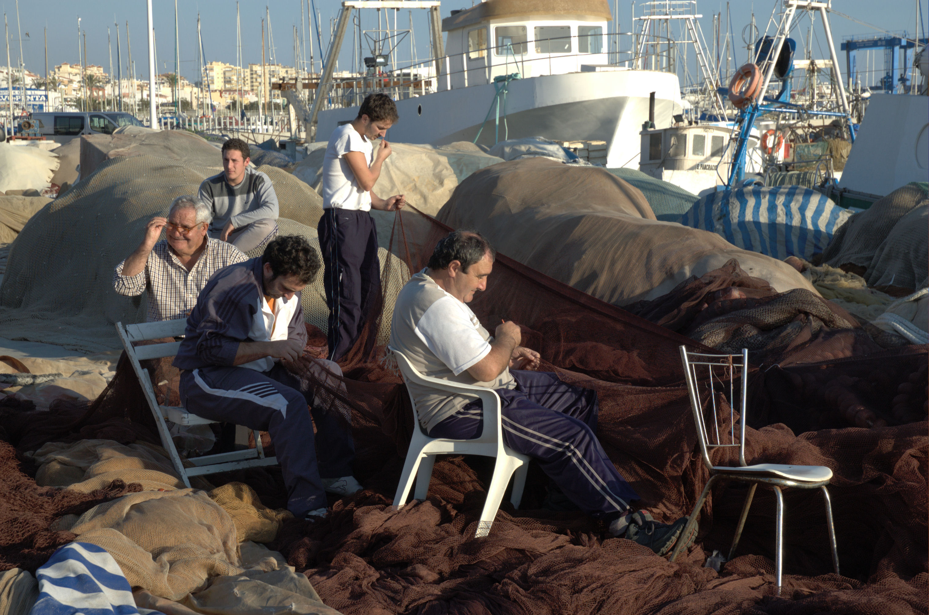 Mending fishing nets at the port of Caleta de Velez